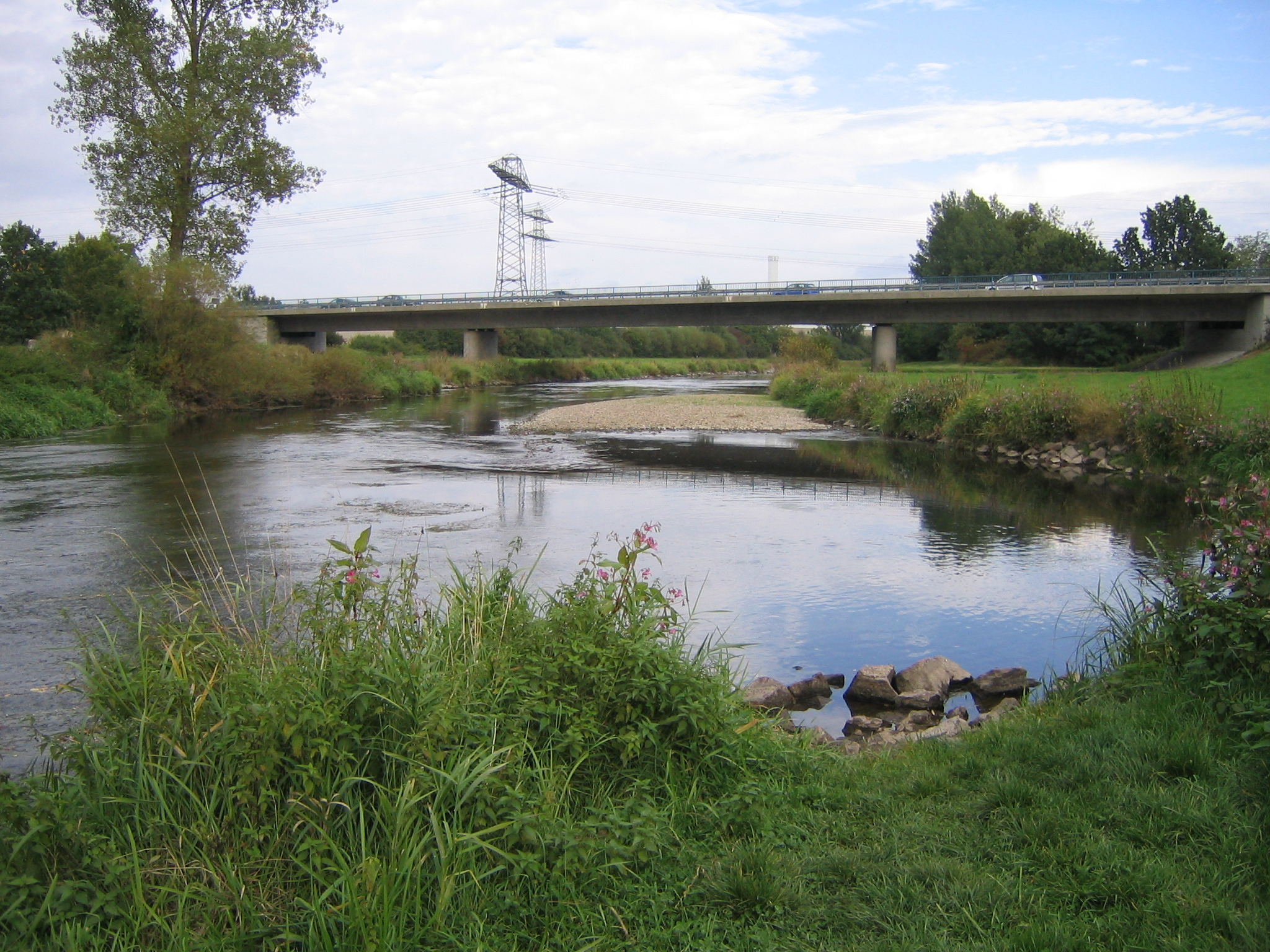 Confluence of Danube and Brigach near Donaueschingen.